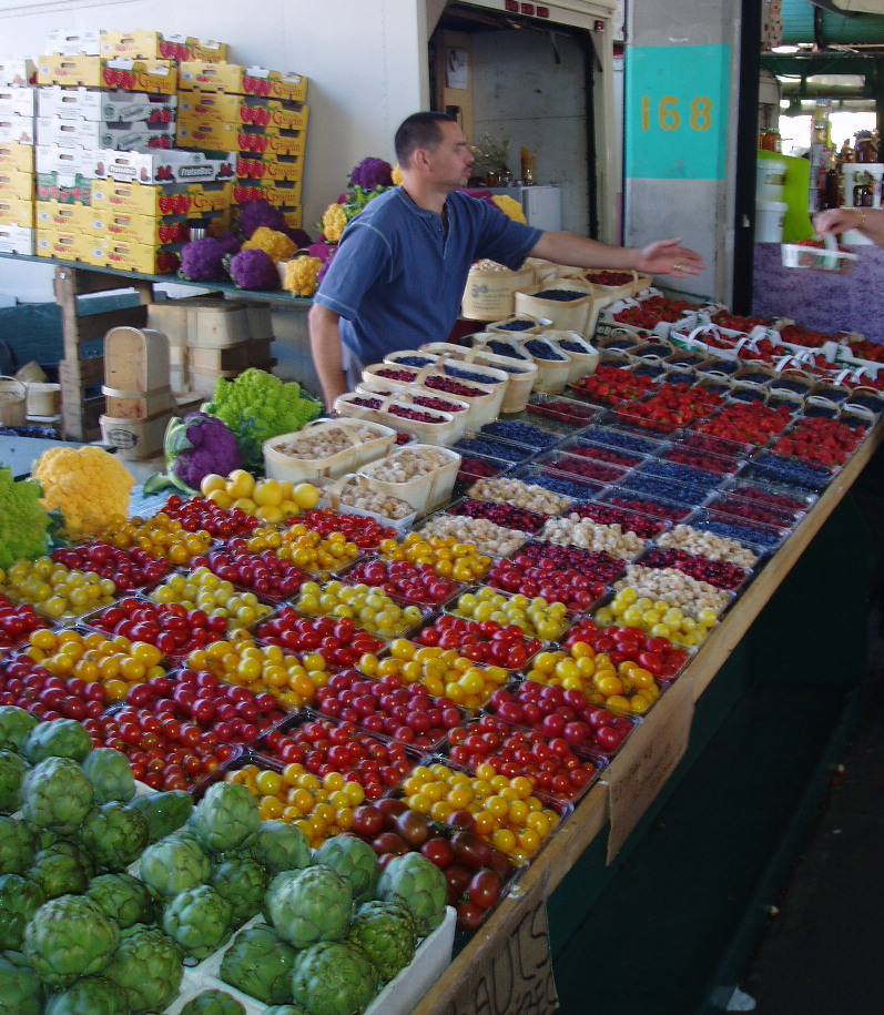 Jean-Talon Market